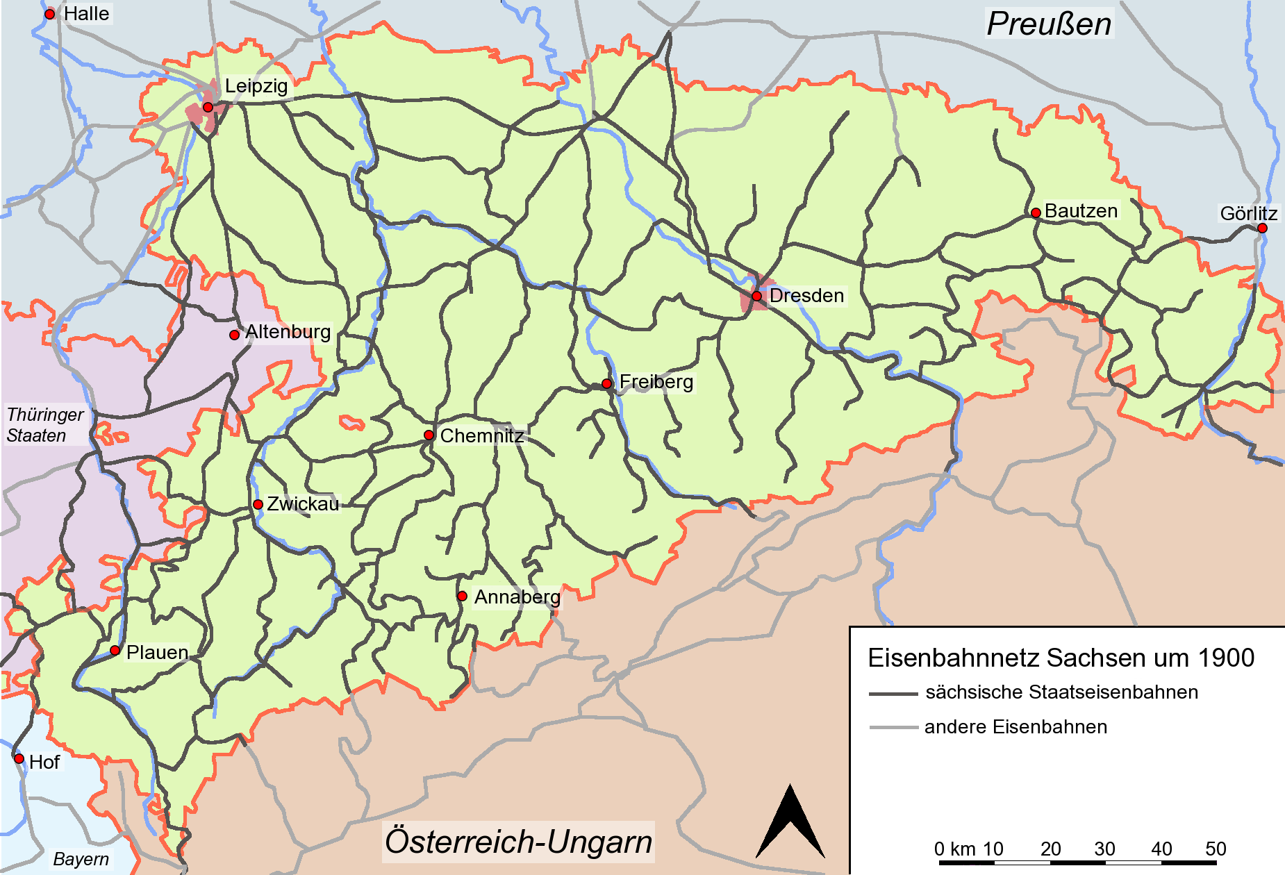 Railway network in Saxony to 1900. Railway construction to 1880 - to 1900 - to 1920